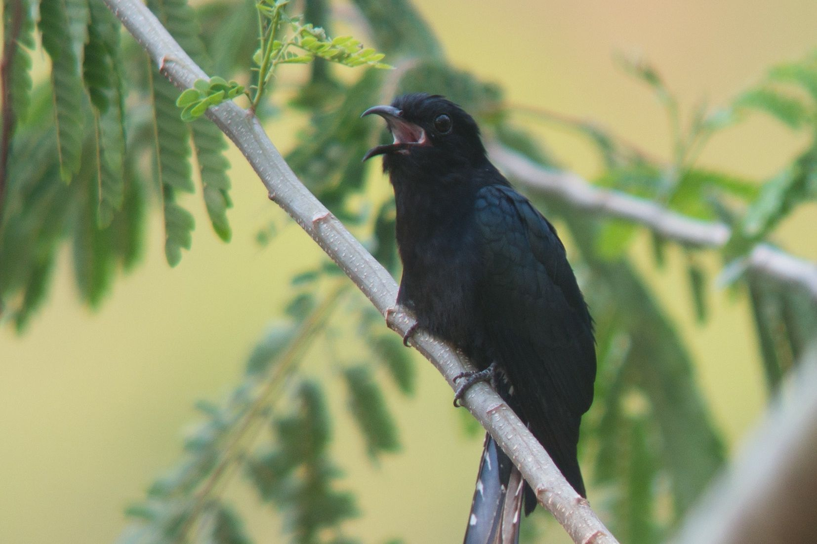 Square-tailed Drongo-Cuckoo (Surniculus lugubris), Palawan, cropped from original